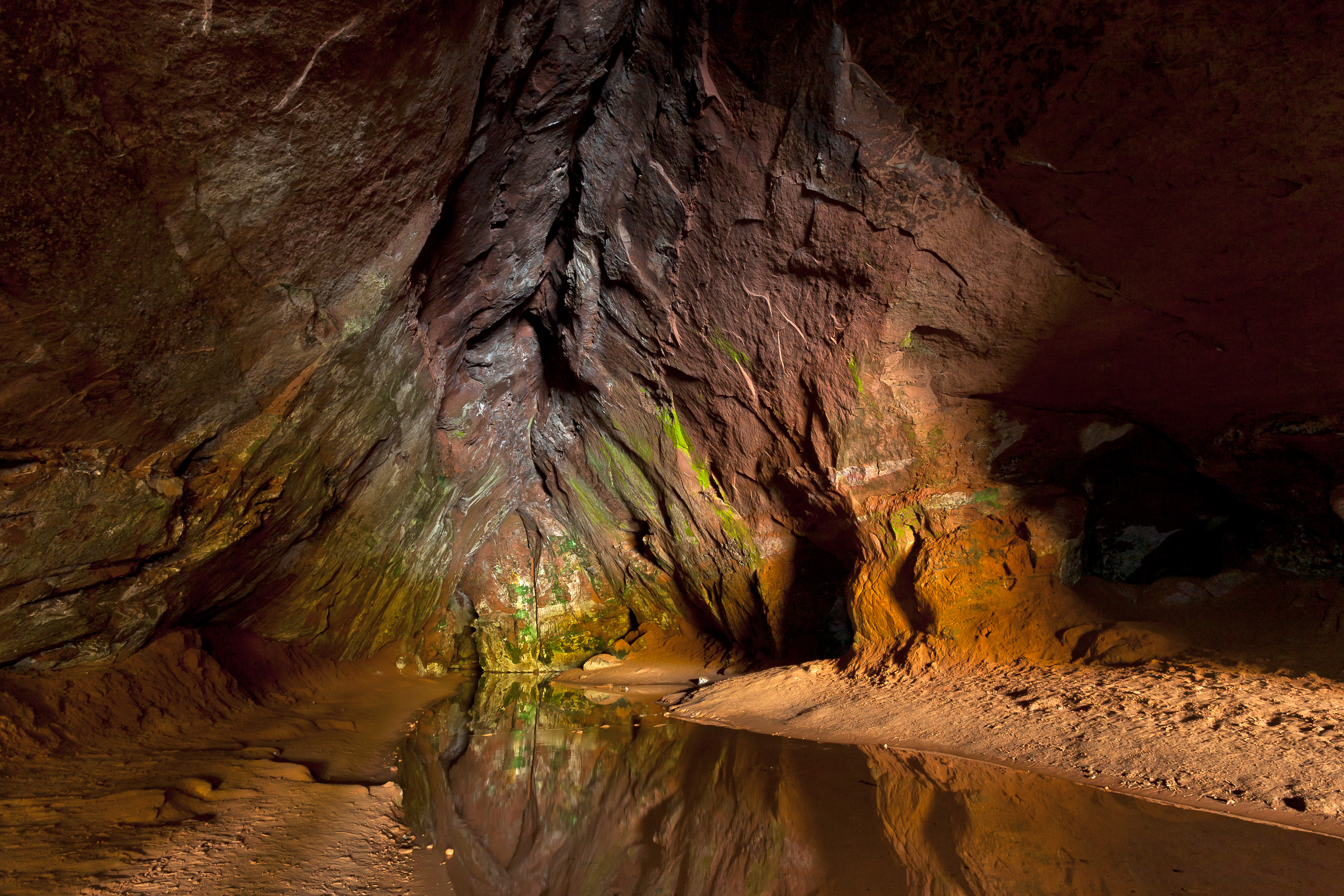 Geomorphology (from Greek: γῆ, ge, "earth"; μορφή, morfé, "form"; and λόγος, logos, "study") is the scientific study of landforms and the processes that shape them. Geomorphologists seek to understand why landscapes look the way they do, to understand landform history and dynamics, and to predict future changes through a combination of field observations, physical experiments, and numerical modeling. Geomorphology is practiced within physical geography, geology, geodesy, engineering geology, archaeology, and geotechnical engineering, and this broad base of interest contributes to a wide variety of research styles and interests within the field.